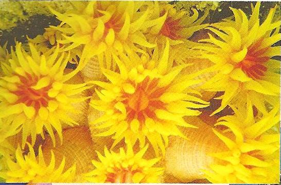 koral